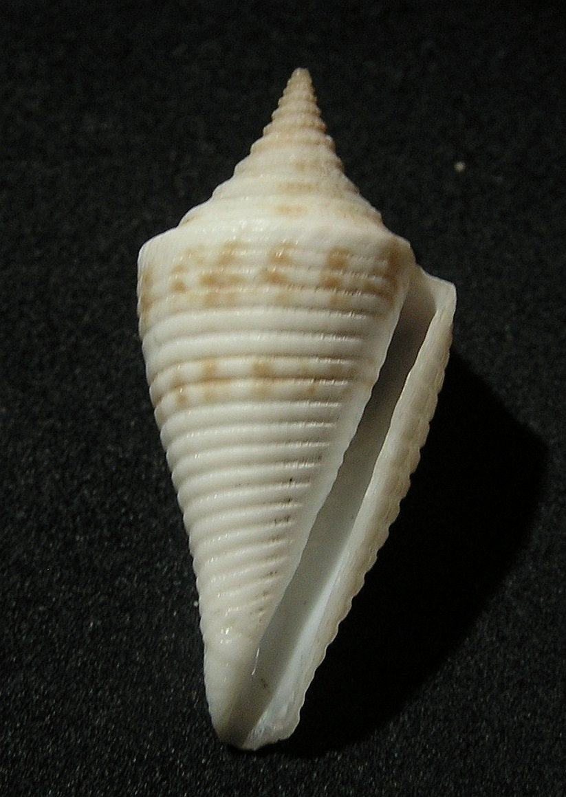 Conasprella pagoda (Kiener, 1847); family Conidae ; Taiwan